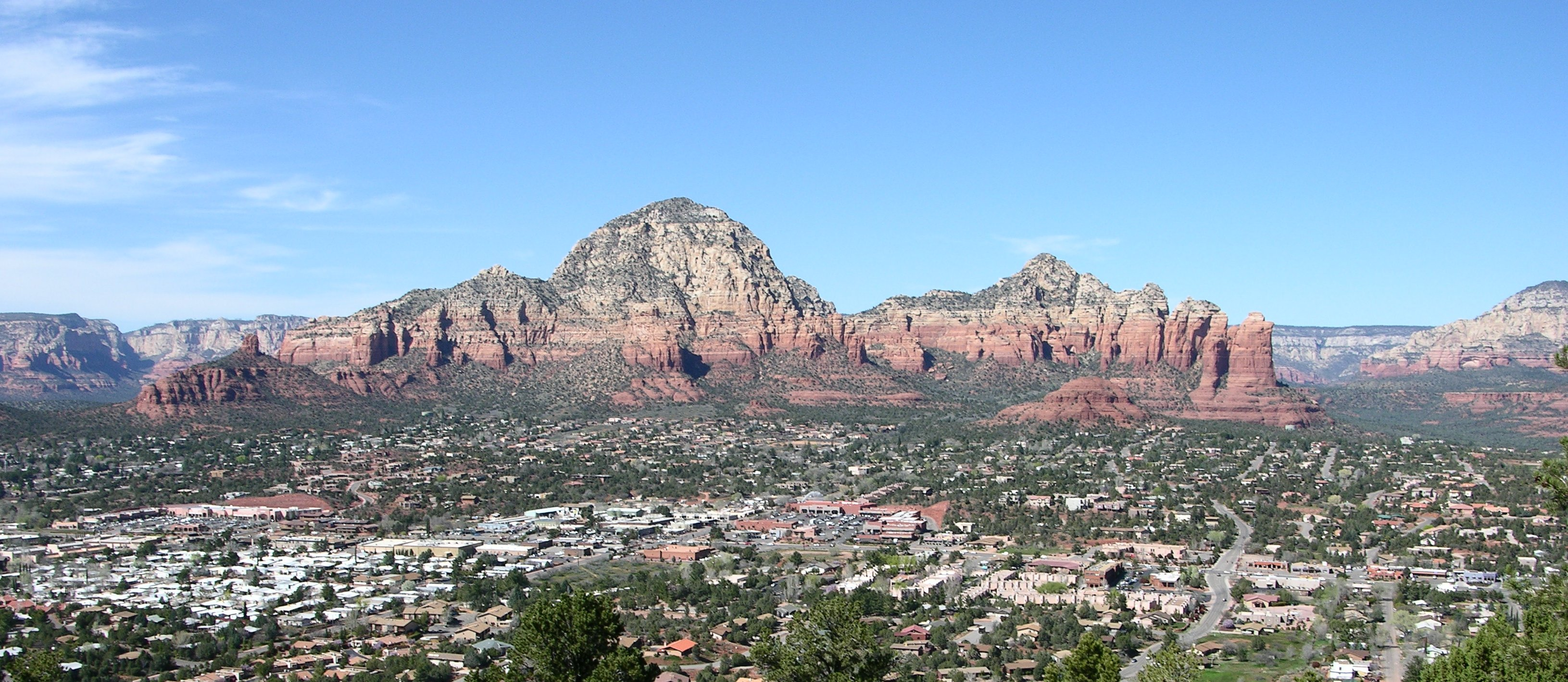 The city of Sedona. Arizona.